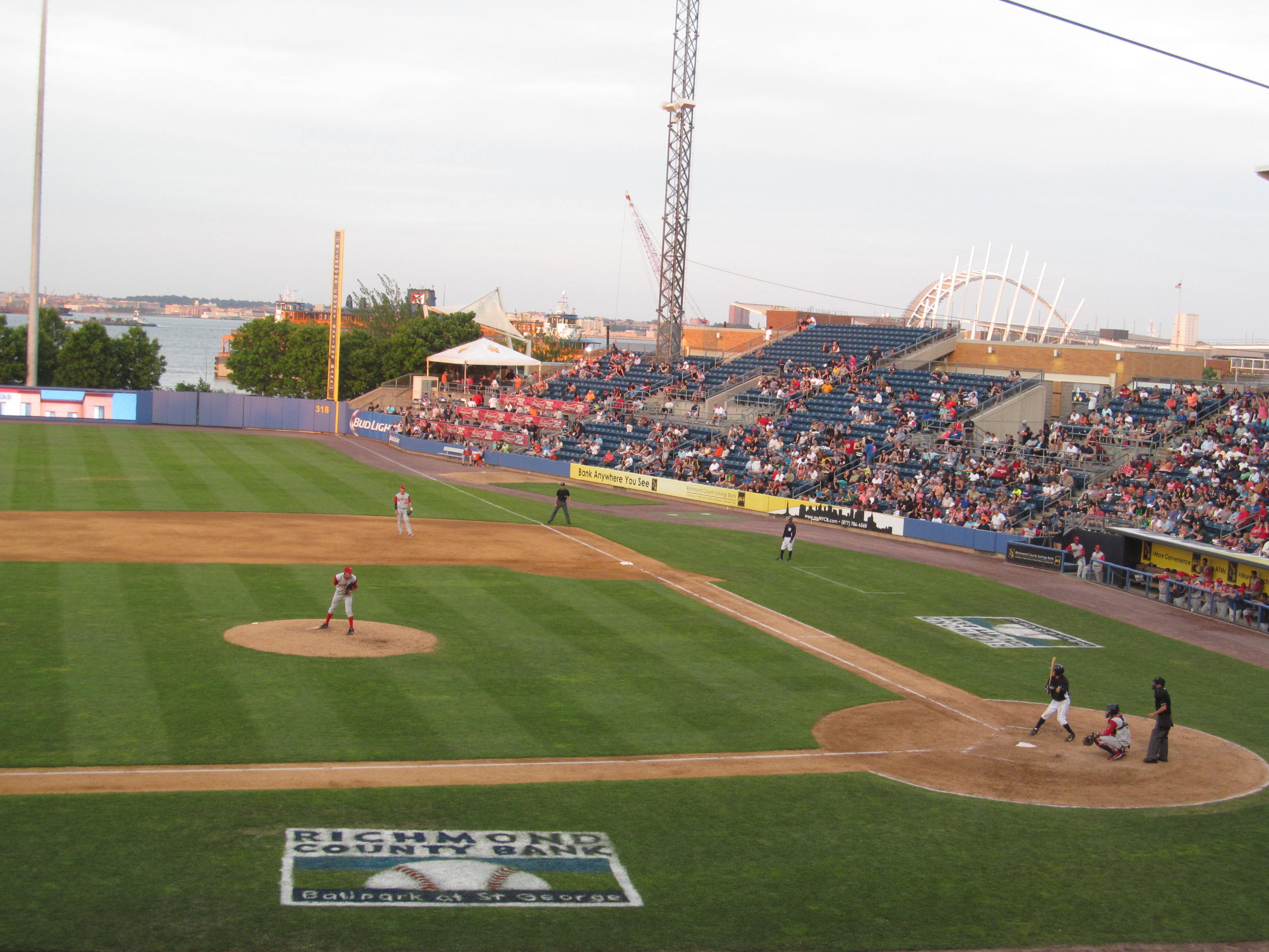 A view from the third base line inside Richmond County ballpark. This is where the Staten Island Yankees play their home games.